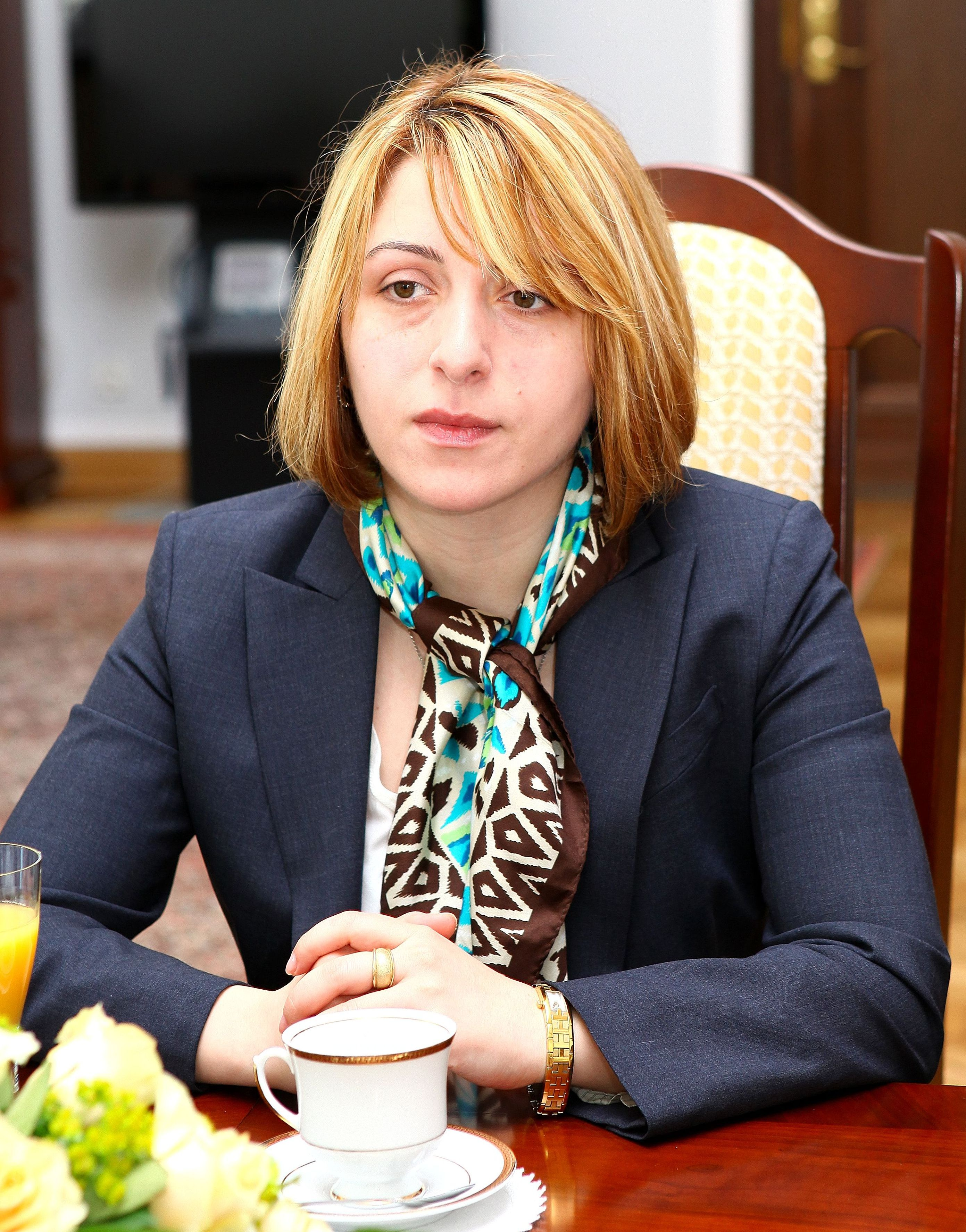 Deputy Prime Minister of Georgia Ekaterine Tkeshelashvili in the Polish Senate